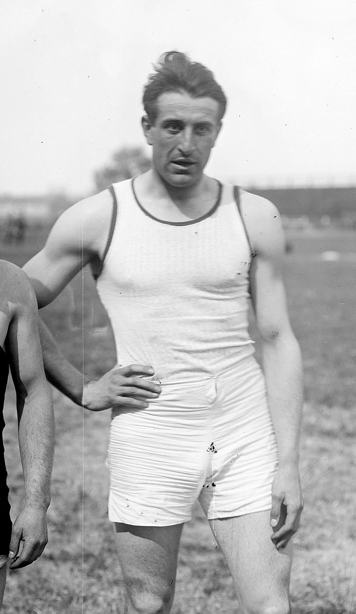 Athlete and rugby union player Géo André on 4 July 1918 in France